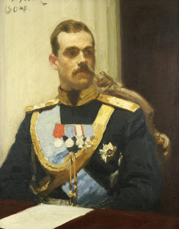 Portrait of member of State Council Grand Prince Mikhail Aleksandrovich Romanov. Study for the picture Formal Session of the State Council